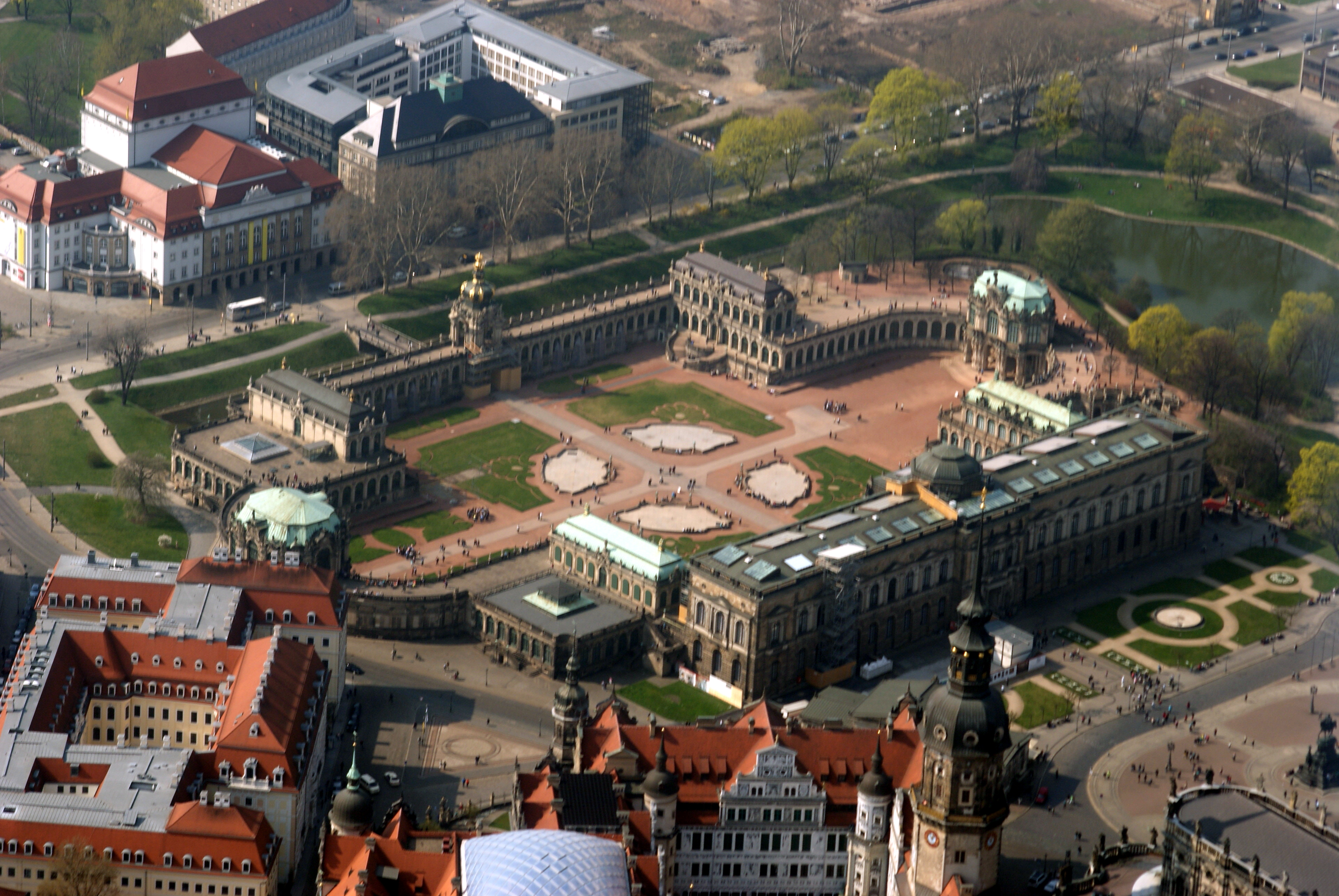 Aerial View: Dresden Zwinger from from East